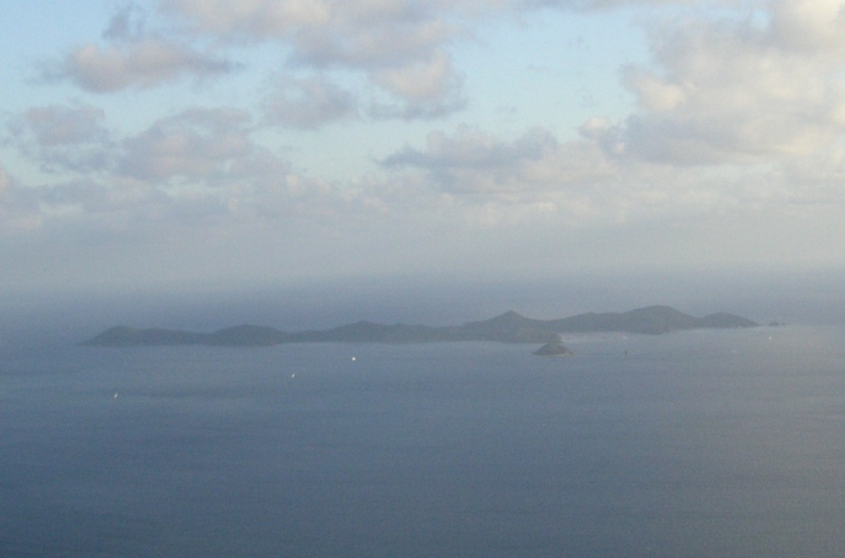 Photograph of Norman Islands (taken from Mount Sage, Tortola) (December 2006)